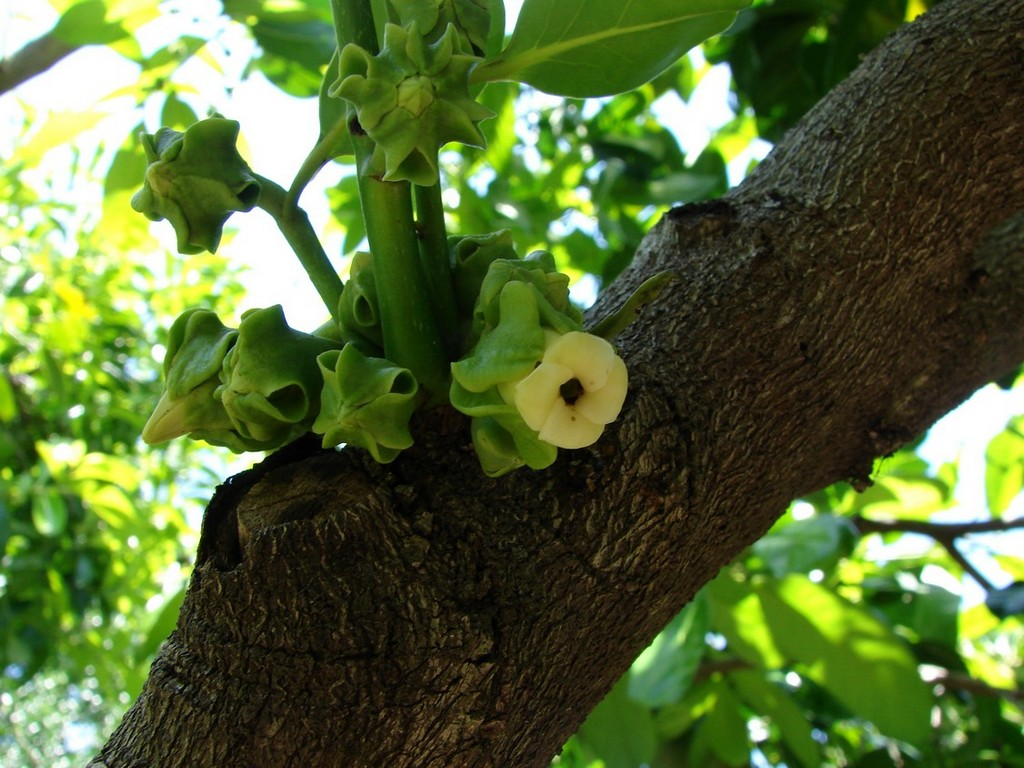 Flowering fruit tree It was surprise to find it is close relative to Persimmon Diospyros virginiana Mt. Coot-tha Botanic garden, Australia